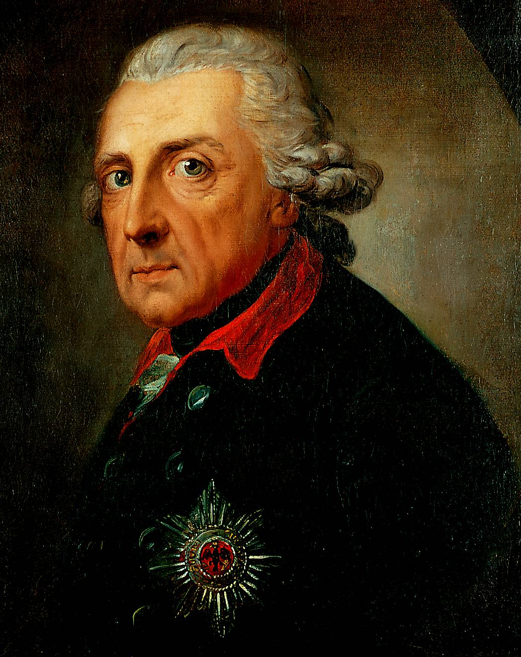 Frederick II (the Great), King of Prussia, aged 68